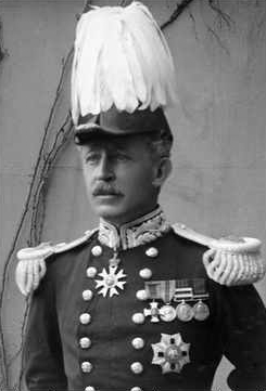 This image shows a photograph of Sir Henry Galway, taken ca. 1900. Under Australian law, all photographs taken in Australia before 1955 are in the public domain. This image is in the public domain under both Australian copyright law and US copyright law. Accessed from